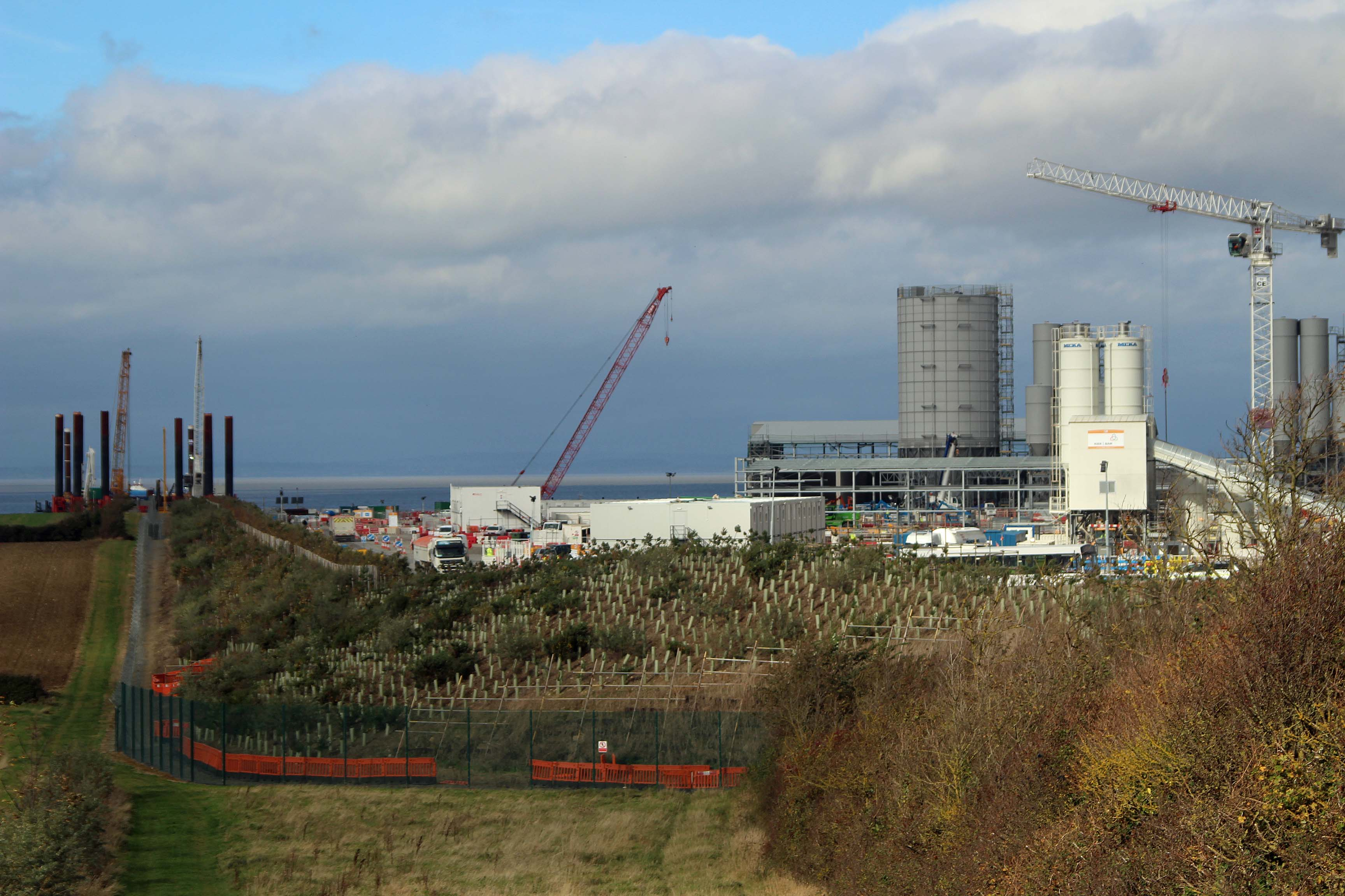 Construction of new power station (C) at Hinkley Point